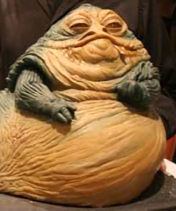 Jabba the Hutt enhanced crop from File:Philpott coppinger.jpg